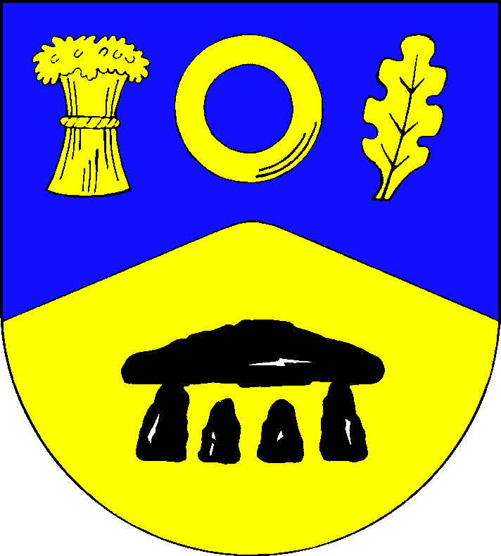 Coat of arms of the municipality Ringsberg in Schleswig-Holstein, Germany.